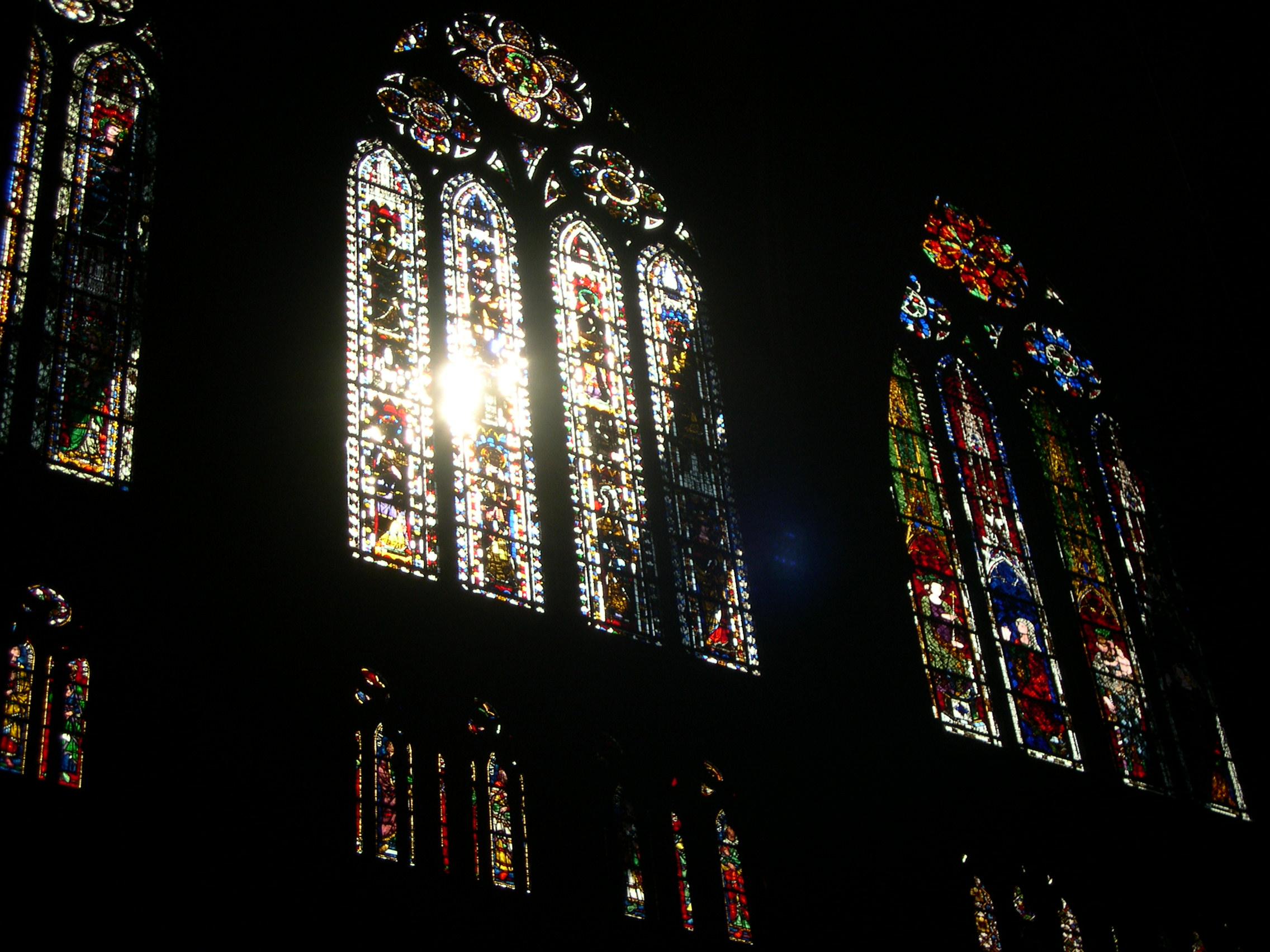 Strasbourg Cathedral clerestory windows